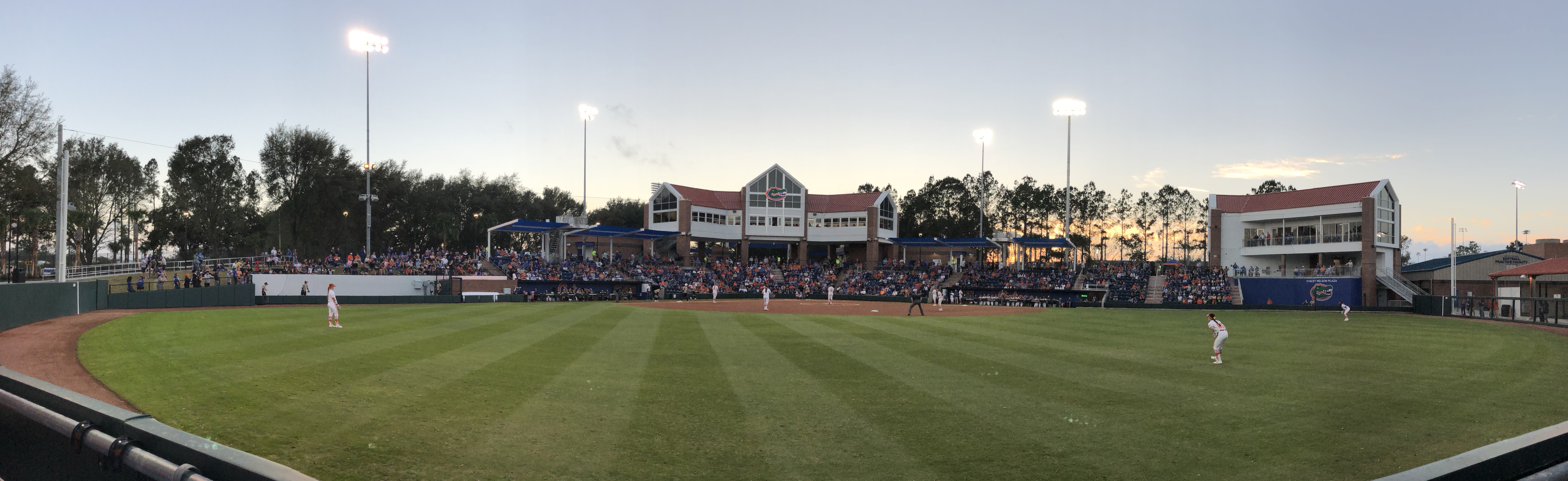 Katie Seashole Pressly Softball Stadium — home of the Florida Gators softball team — was renovated from June 2018 to February 2019. The newly renovated stadium made its debut on February 12, 2019, when the Gators played an exhibition game against Japan’s national softball team.